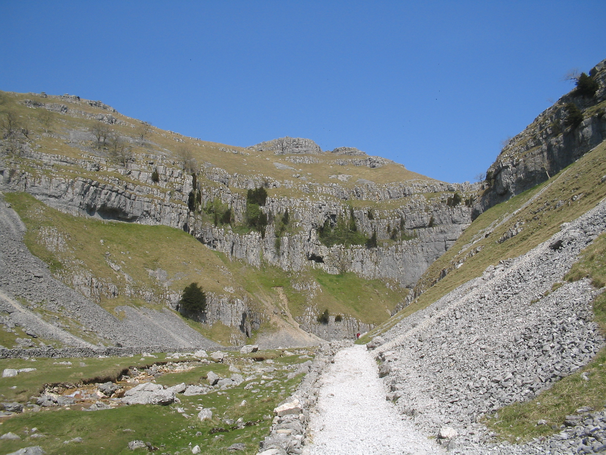 Gordale Scar from below.